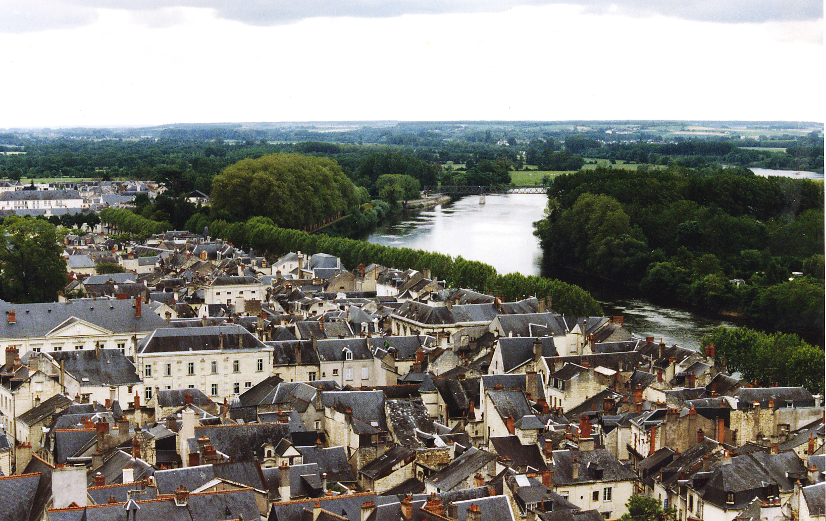 Chinon and Vienne river, France